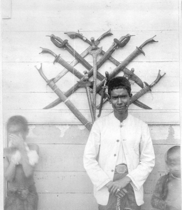 Portrait of Si Boendri standing in front of a wall with a collection krisses and klewangs